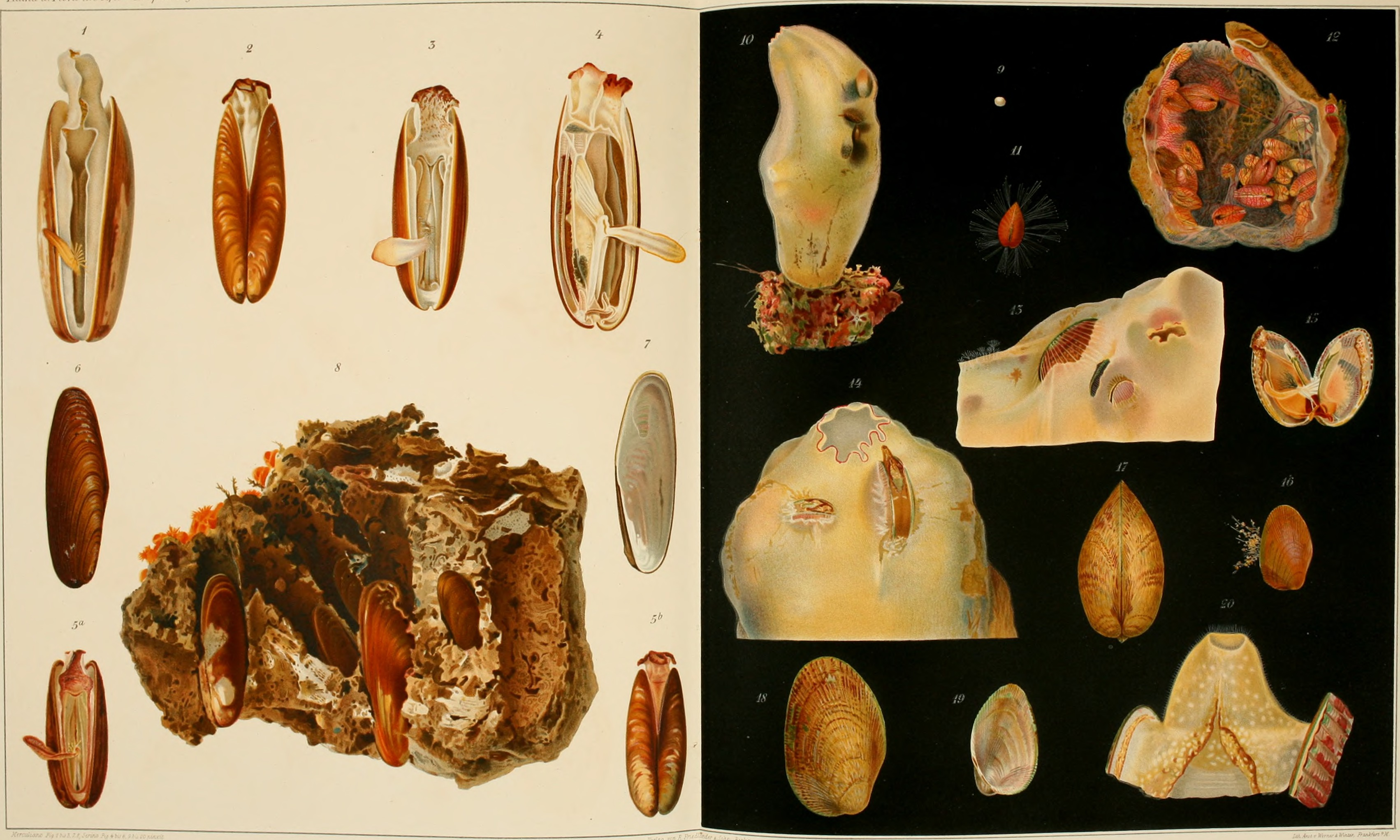 Title: Die Mytiliden des Golfes von Neapel und der angrenzenden Meeres-Abschnitte, I. Teil Year: 1902 (1900s) Authors: List, Theodor; Stazione zoologica di Napoli Subjects: Mytilidae; Mollusks -- Italy Naples, Bay of Publisher: Berlin : R. Friedländer & Sohn Text Appearing Before Image: Fdimtl u.Bom flJiolfes v.Xm/iel. Mijtilidni Tnf3. Text Appearing After Image: '